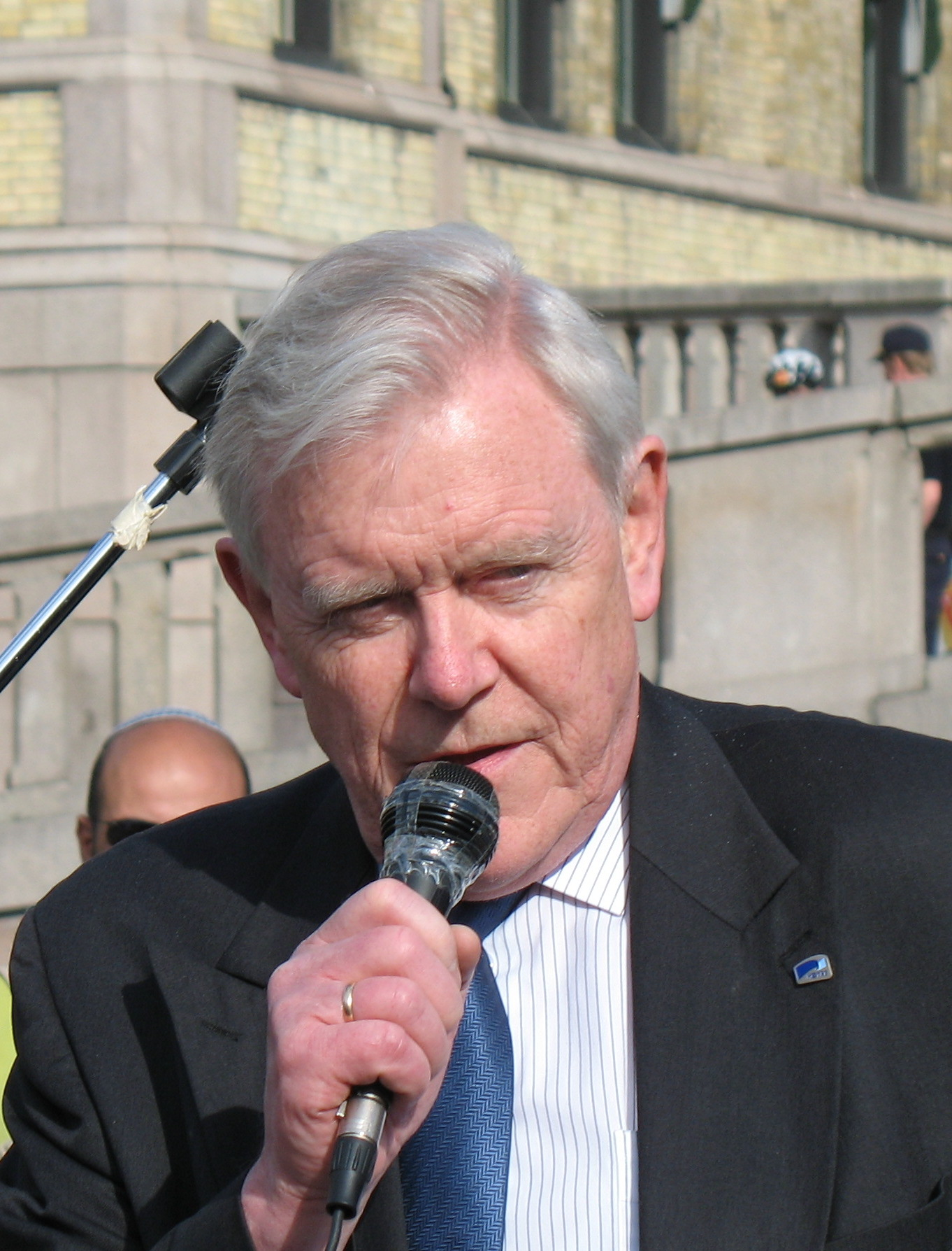 Norwegian politician Inge Lønning.